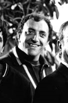 Cacho Espíndola- actor argentino